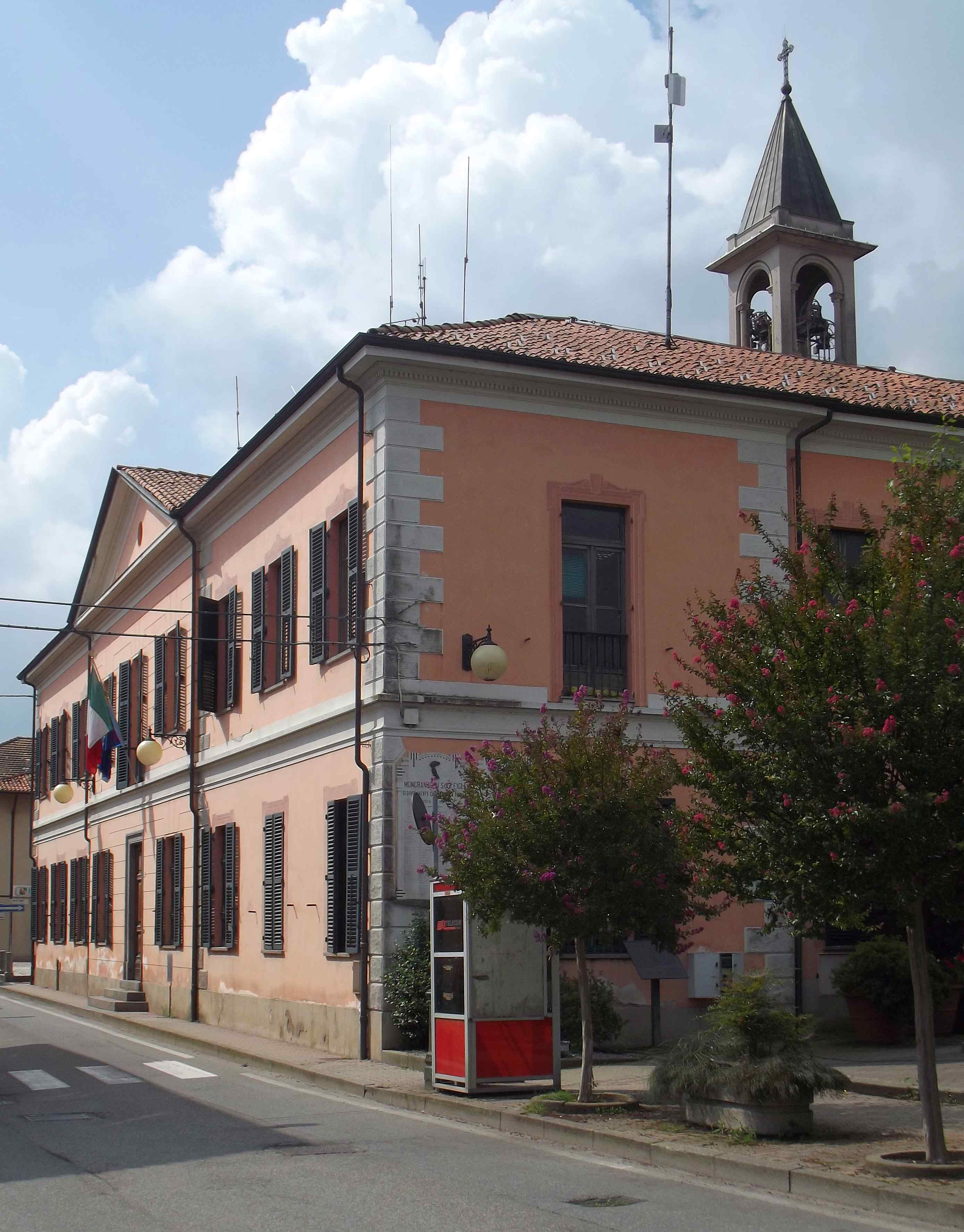 Mongrando (BI, Italy): town hall